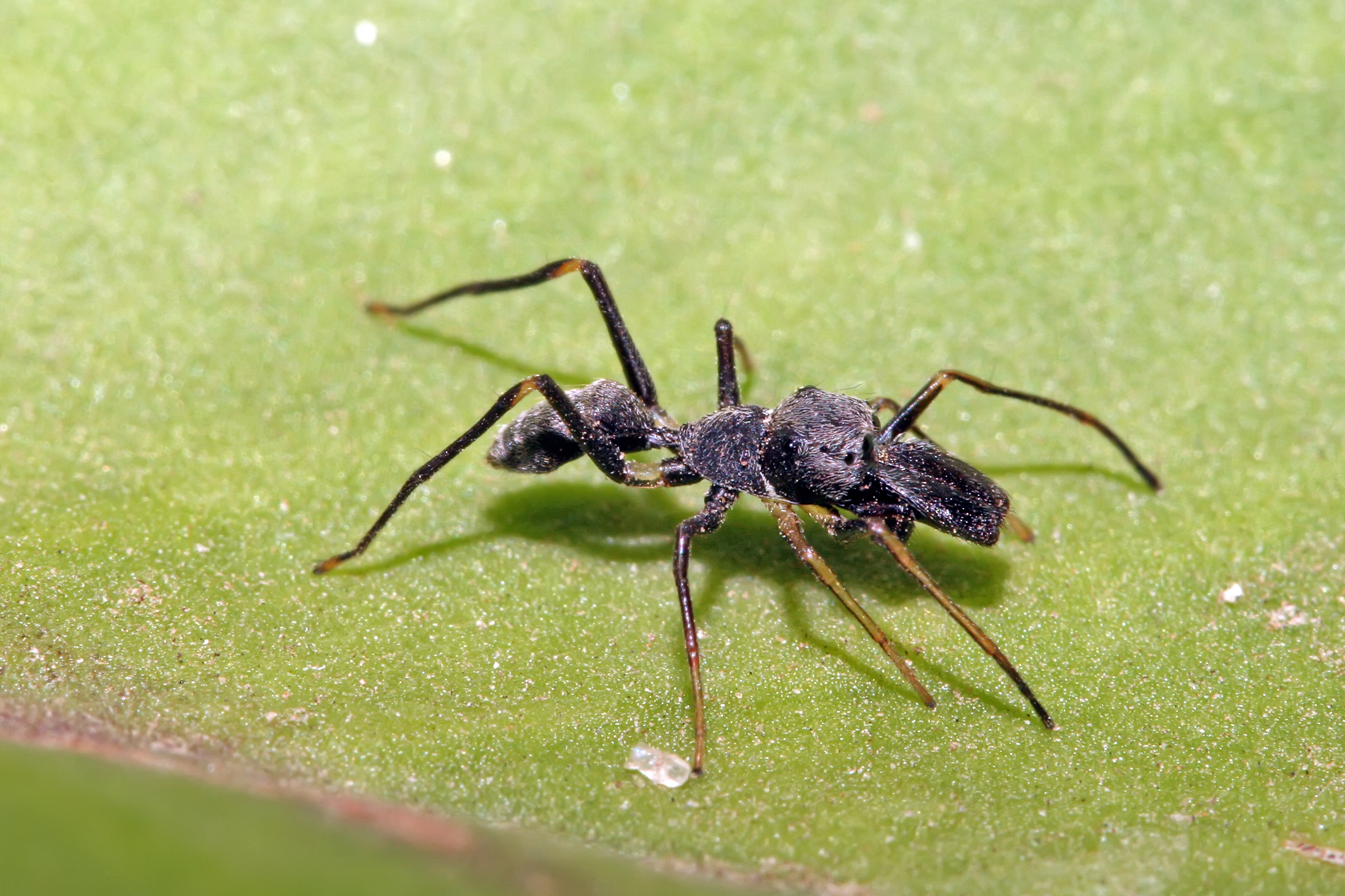 Jumping spider, Myrmarachne sp, also known as the ant mimicking spider.